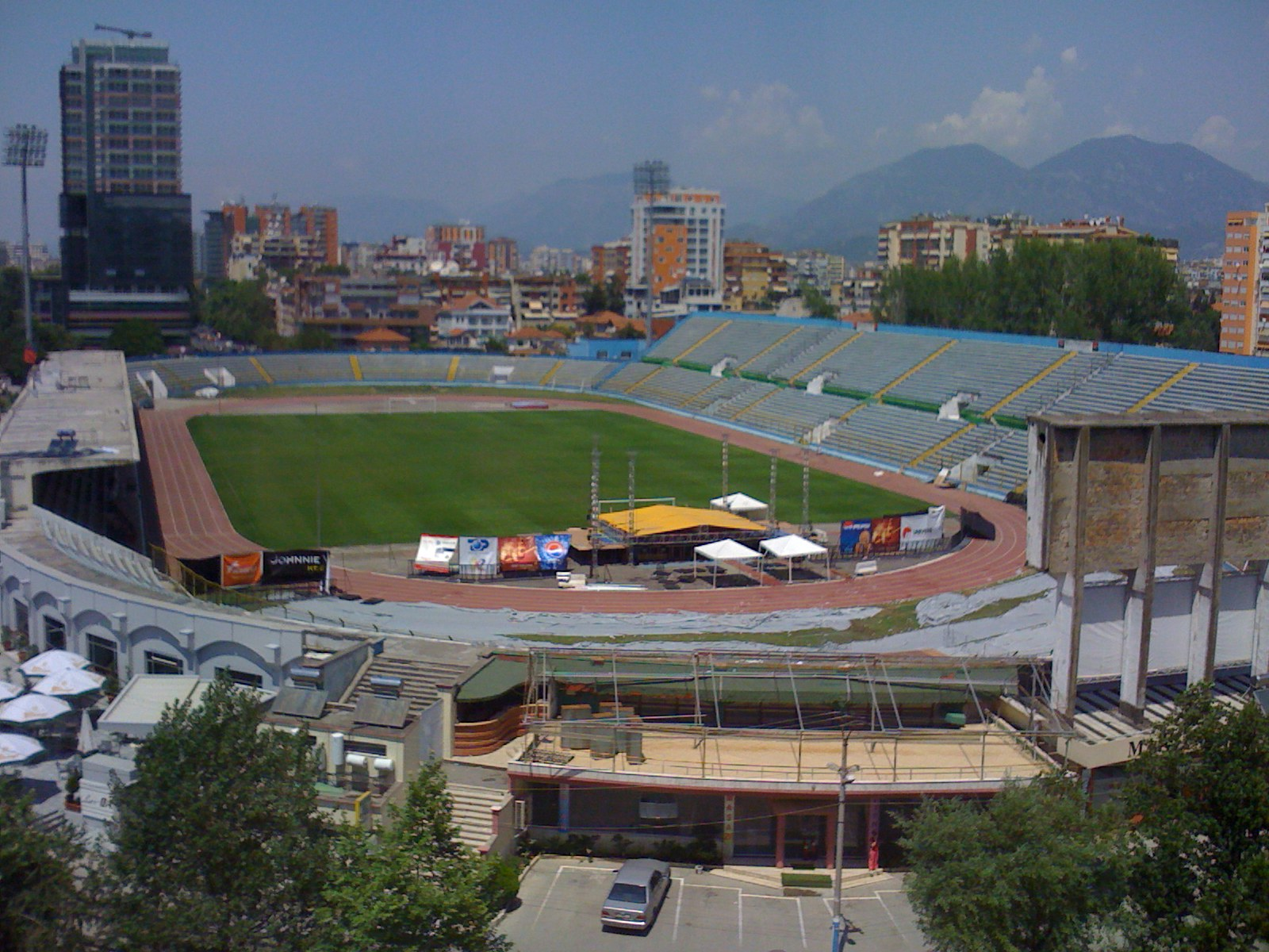 Picture of Qemal Stafe Stadium in Tirana, Albania